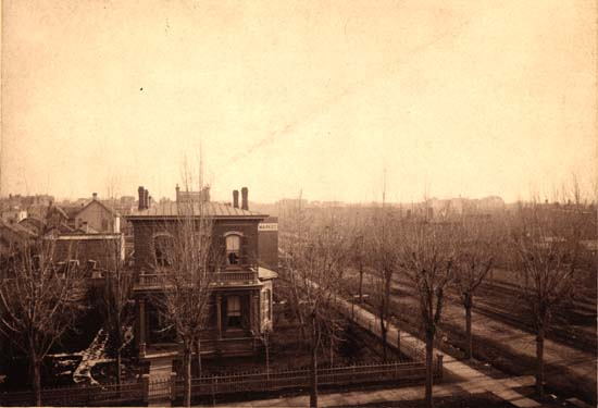 Home of Abraham and Frances Wisebart Jacobs at corner of 16th and Welton Street, Denver, Colo. Exterior of the Jacobs' home with surrounding fence, other neighborhood homes, trees and streetcar lines visible.